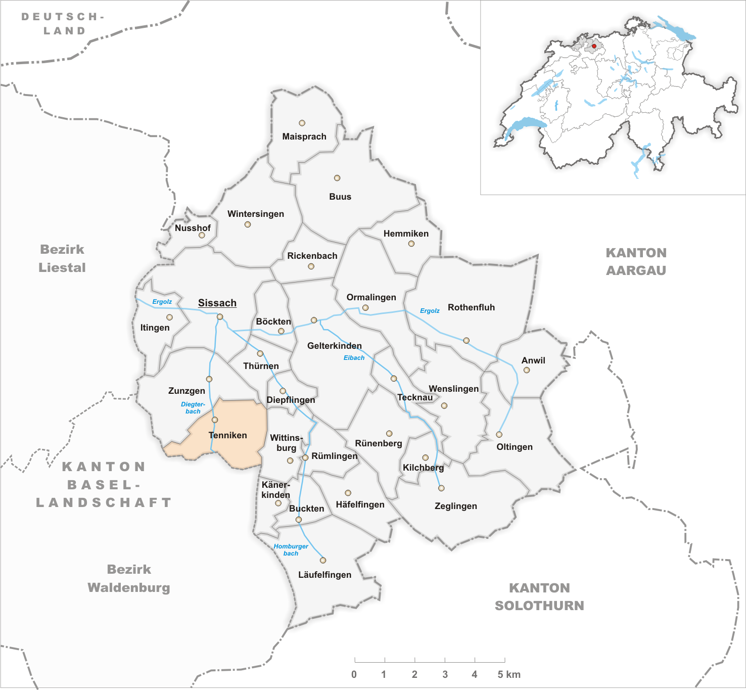 Municipality Tenniken